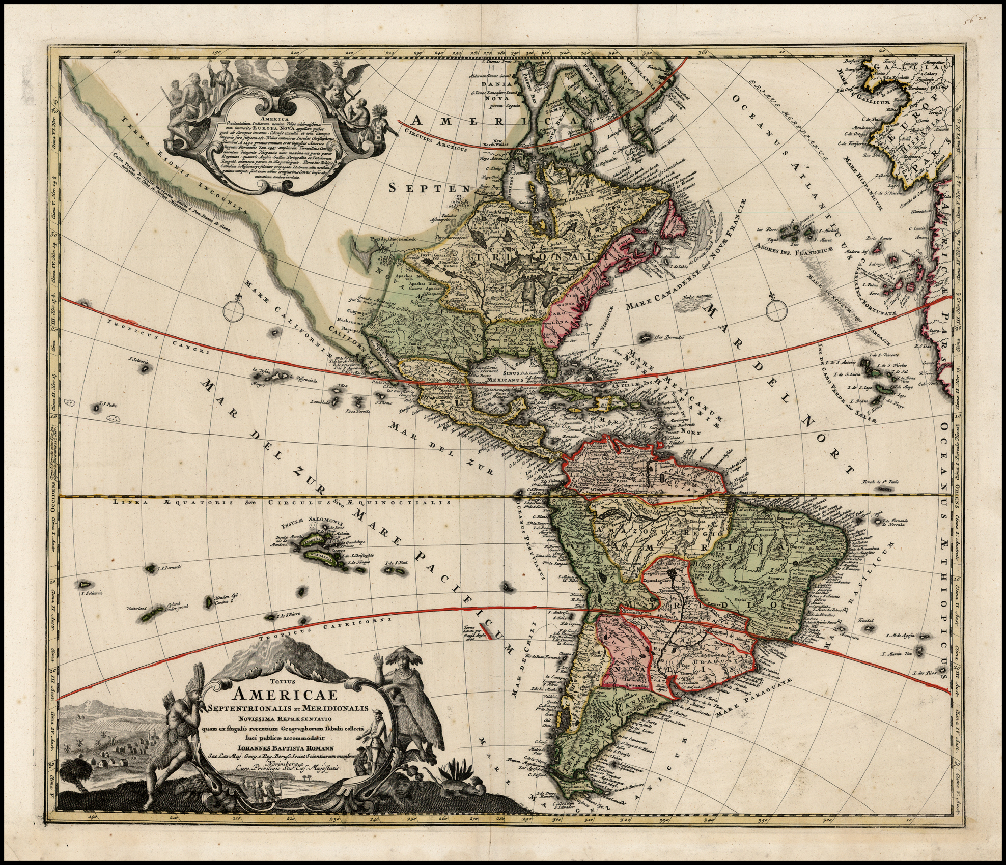 Map of the Américas - 1720